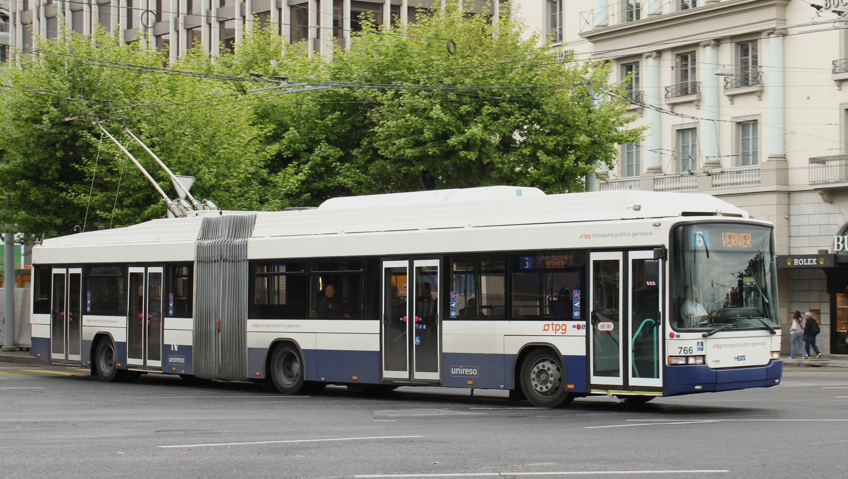 Trolleybus number 766 (Hess BGT-2NC) of the TPG network in Geneva. It is a "Swisstrolley 3" model and was built in 2005.